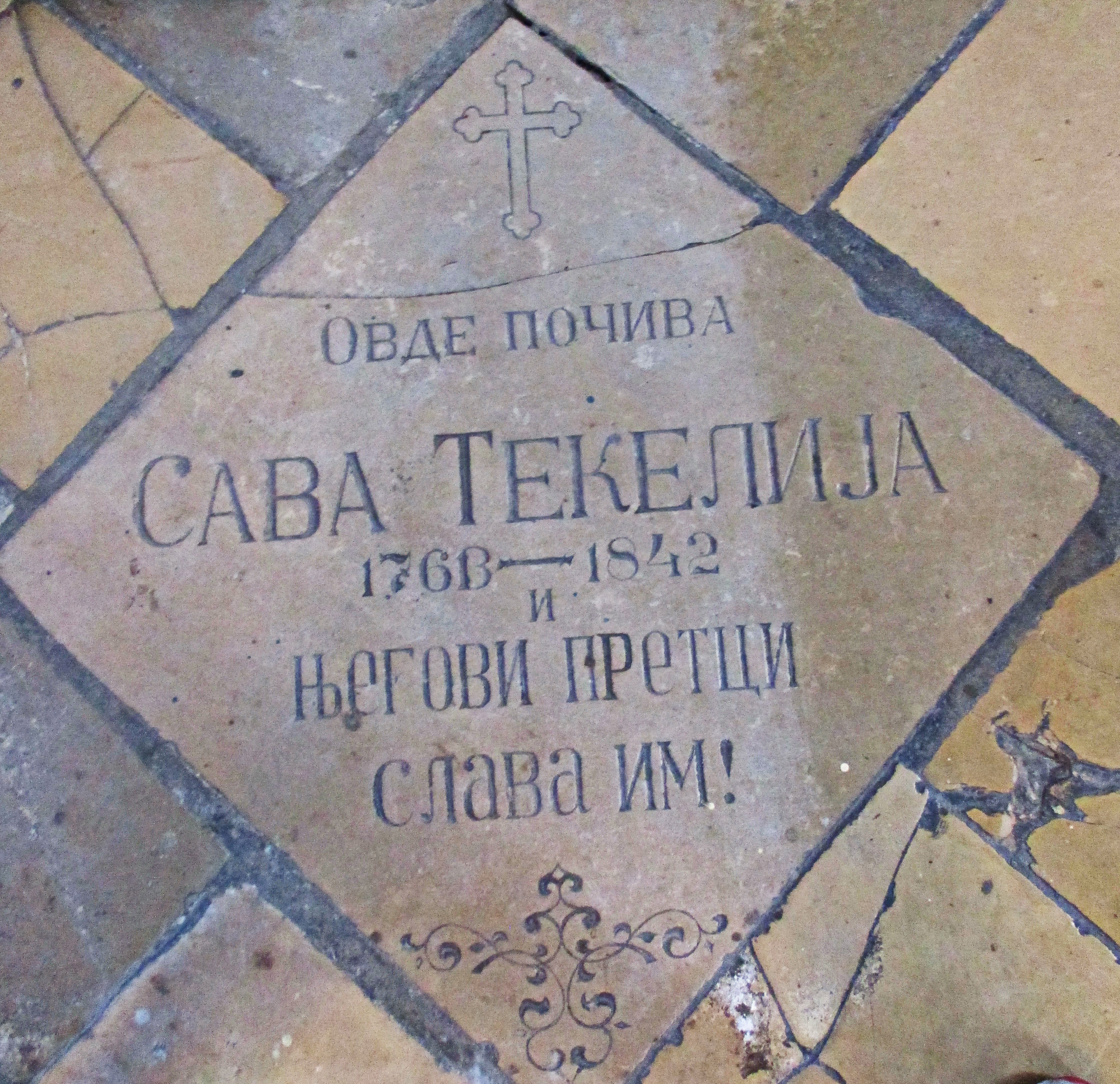 Sava Tekelija's grave place in the Church of Holy Apostles Peter and Paul in Arad, Romania.